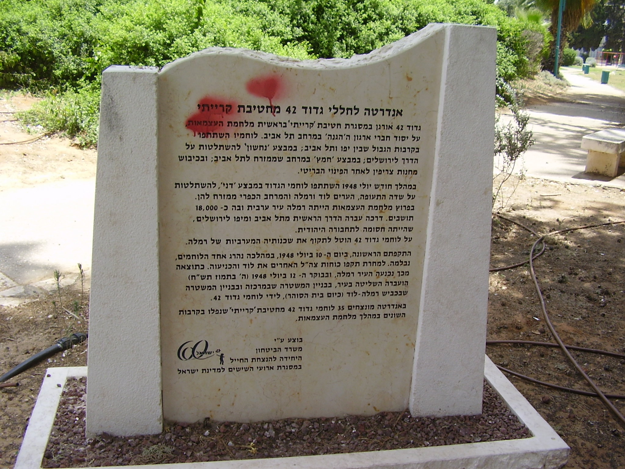 reg. 42 memorial in ramla